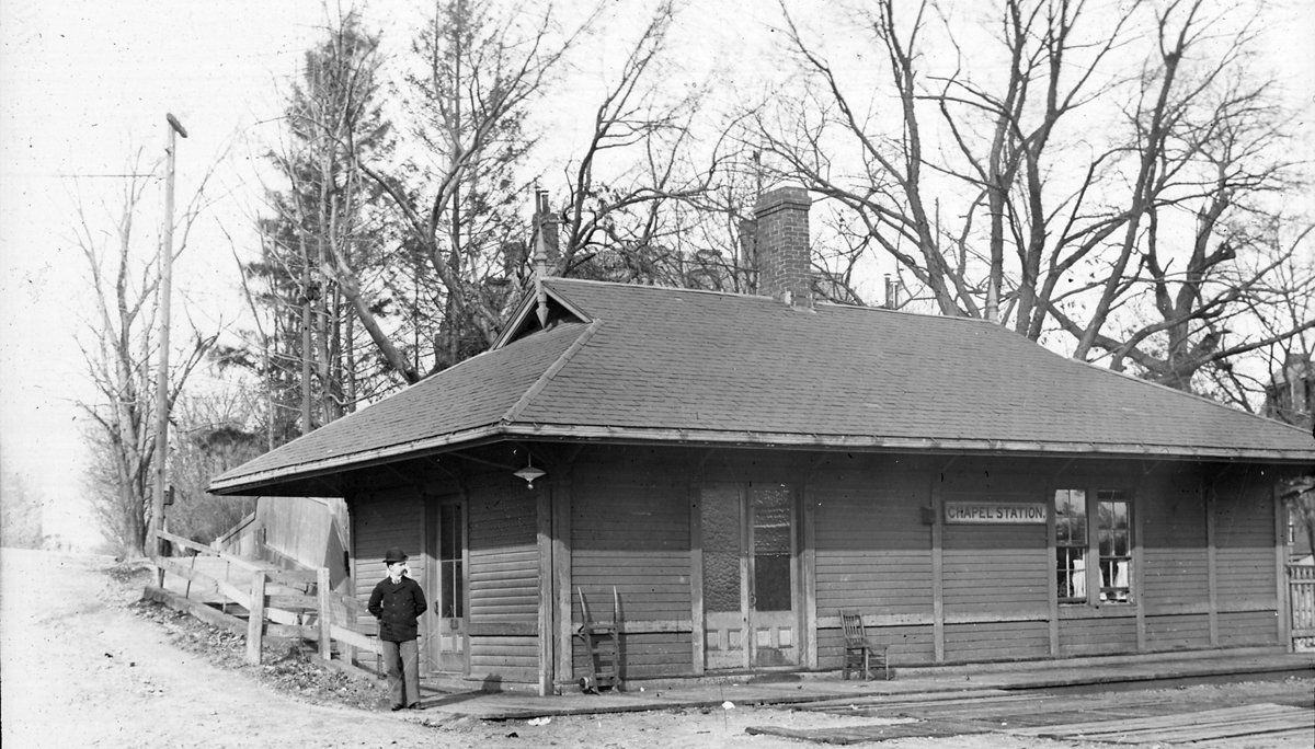 Chapel station in the late 19th century